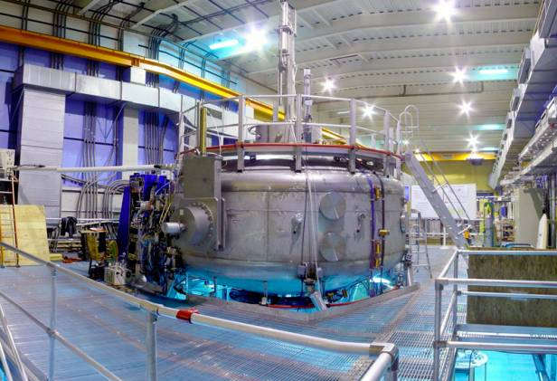 This is a picture of the levitating dipole experimental chamber at MIT plasma science and fusion center. It was taken from the article: "Levitating magnet brings space physics to fusion" 1/25/2010 by David L. Chandler and modified.